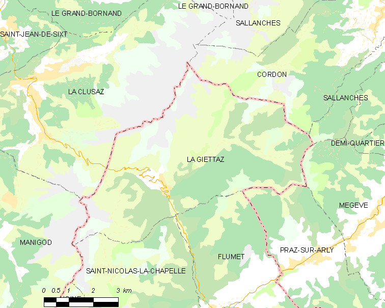 Map of French municipality